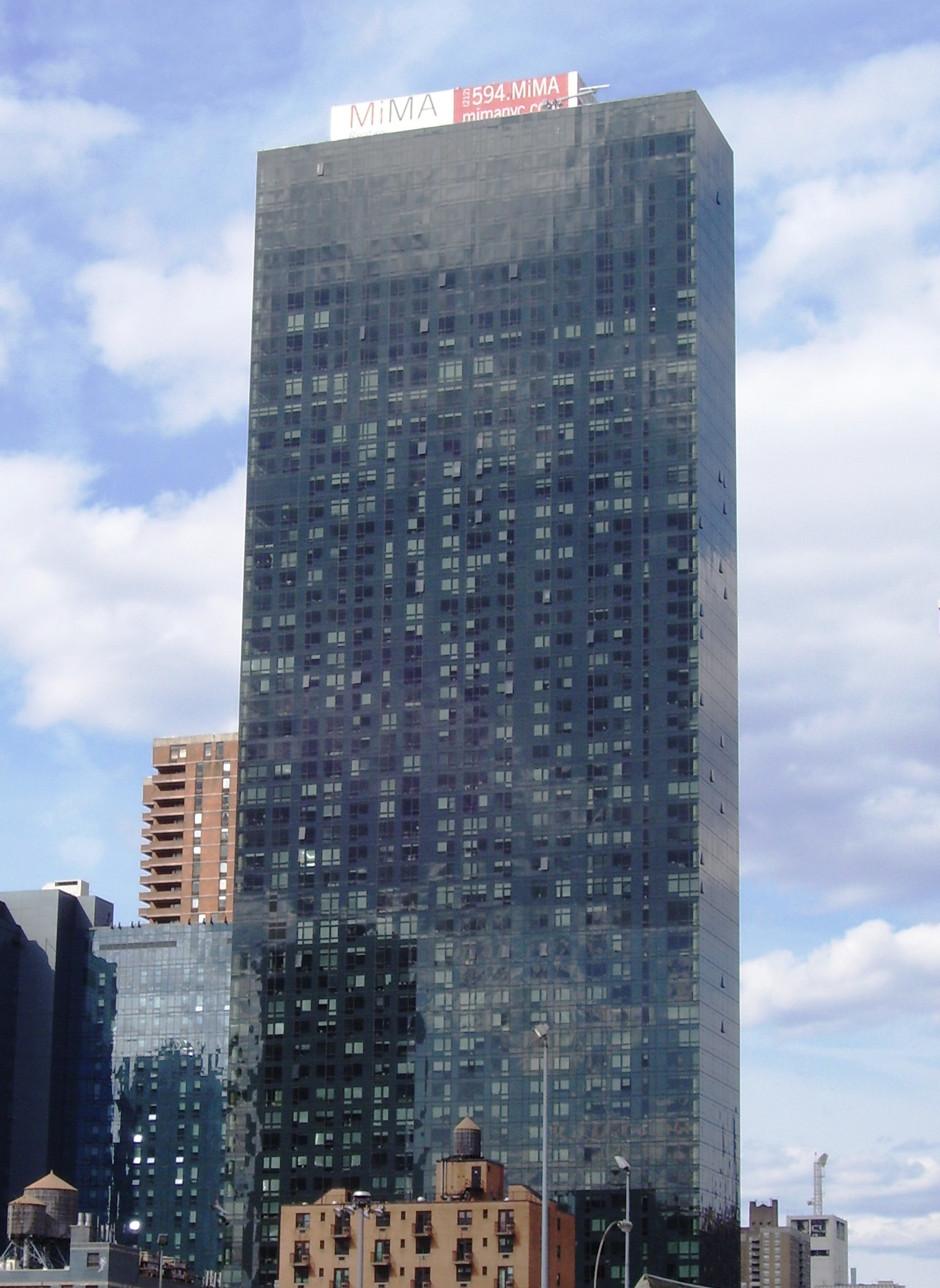 The tower of MiMA ("Middle of Manhattan"), a mixed-used building at 450 West 42nd Street at the corner of 10th Avenue in the Hell's Kitchen neighborhood of Manhattan New York City. The 63-story building includes a YOtel Hotel, luxury condominiums and luxury rentals. It was designed by the Arquitectonica firm and was completed in 2011. This view of the building's tower is from West 37th Street between 9th and 10th Avenues.